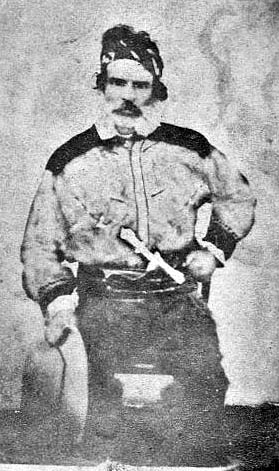 Única fotografía conocida del caudillo riojano Ángel Vicente Peñaloza, fue tomada en San Juan entre 1850 y 1860